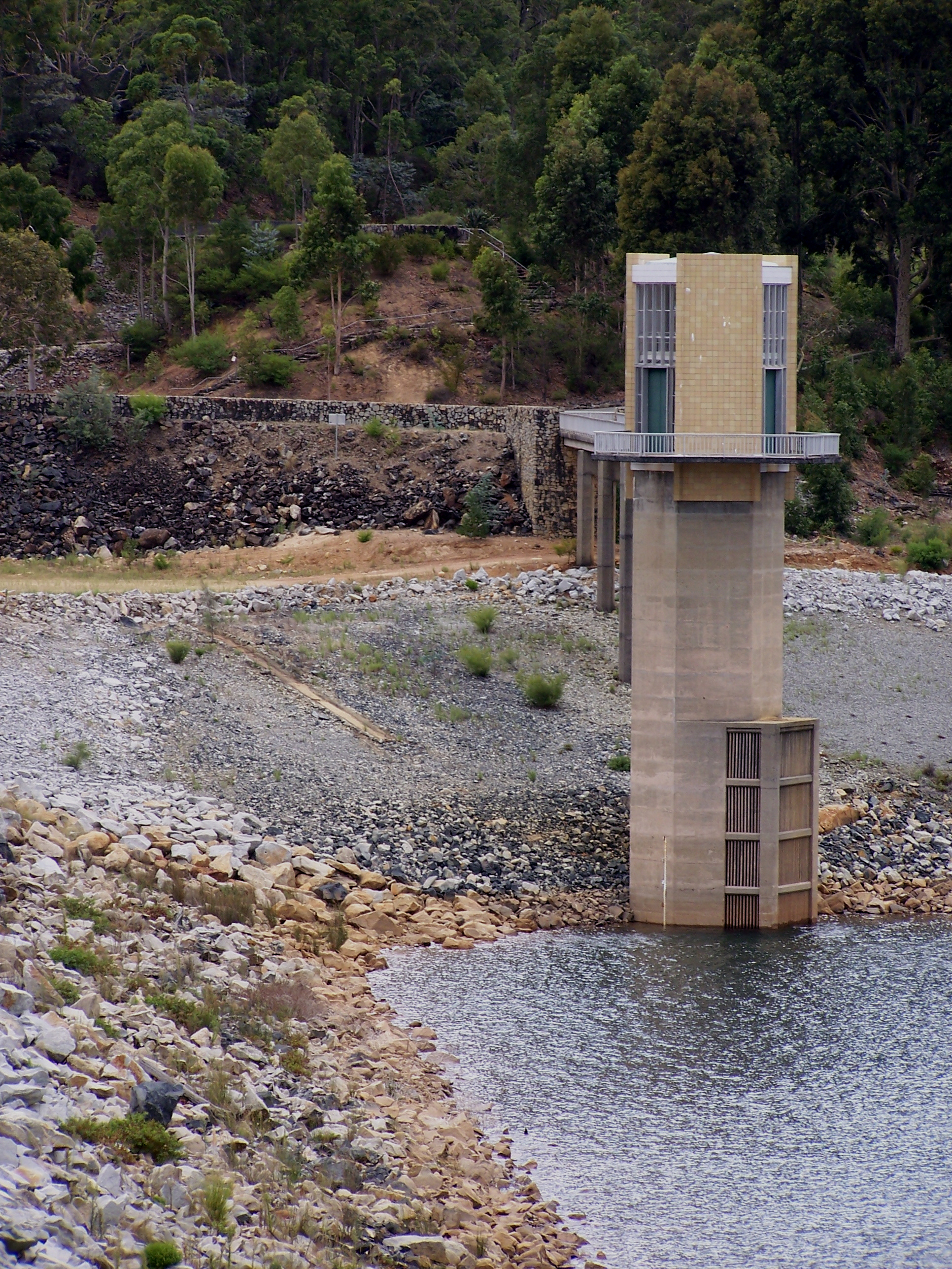 Serpentine Dam offtake tower and partial dam wall, at 27% of capacity